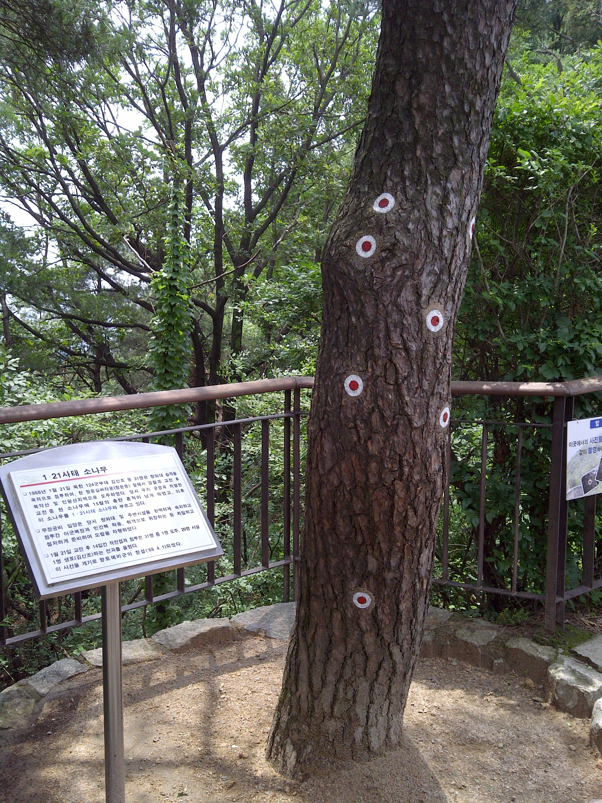 Bukaksan pine tree with bulletholes marked